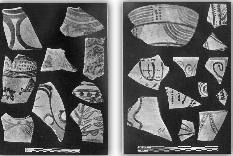 These are the things which are founded at Archelogical Site Village Bara in Rupnagar District of Punjab and are placed in Archelogical Museum Rupnagar,Punjab